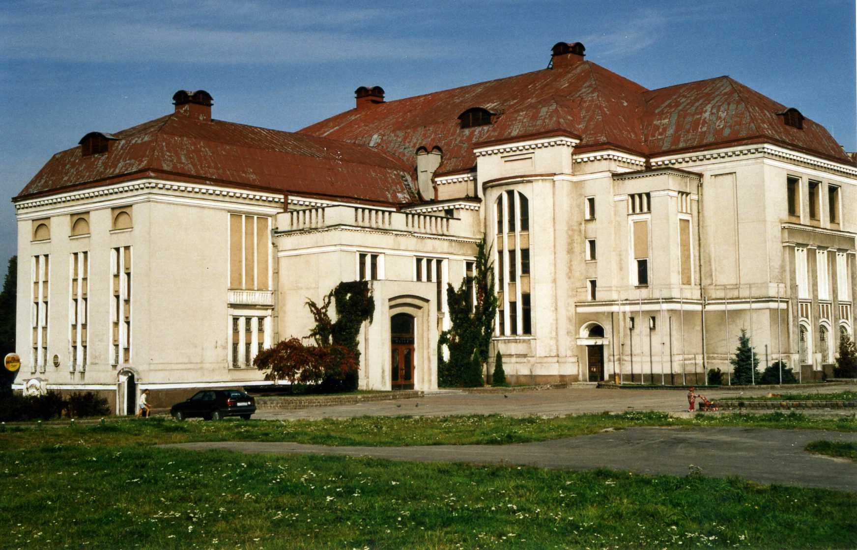 The former Stadthalle Designed in 1911 - Stahlzeit. The architect was Richard Seel, of Berlin, and his design was to house a 1600 seat concert hall for the Philharmonic Orchestra, die Königsberger Philharmonie. Bombed serverely in the war, it has been restored to its pre-war state.